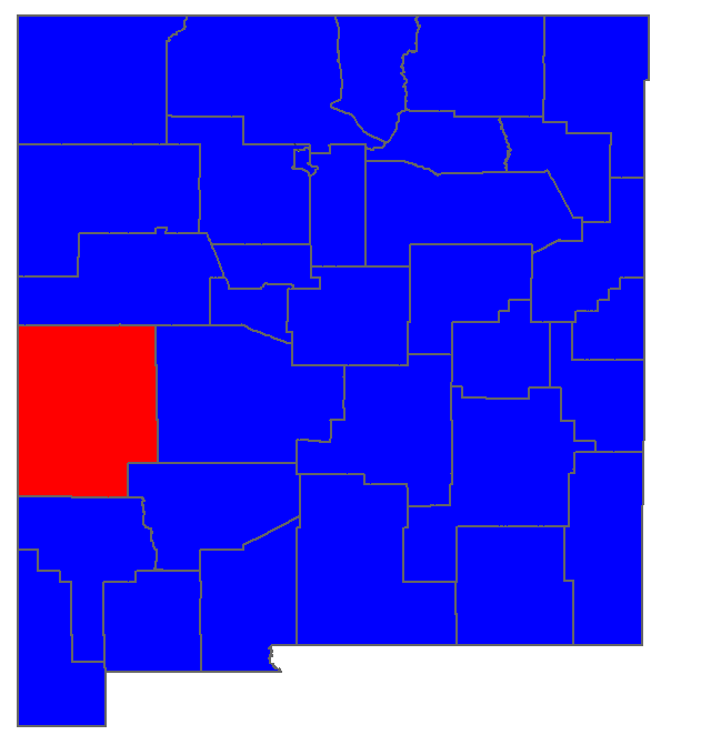 Self-created image of 2006 New Mexico gubernatorial election results by county.